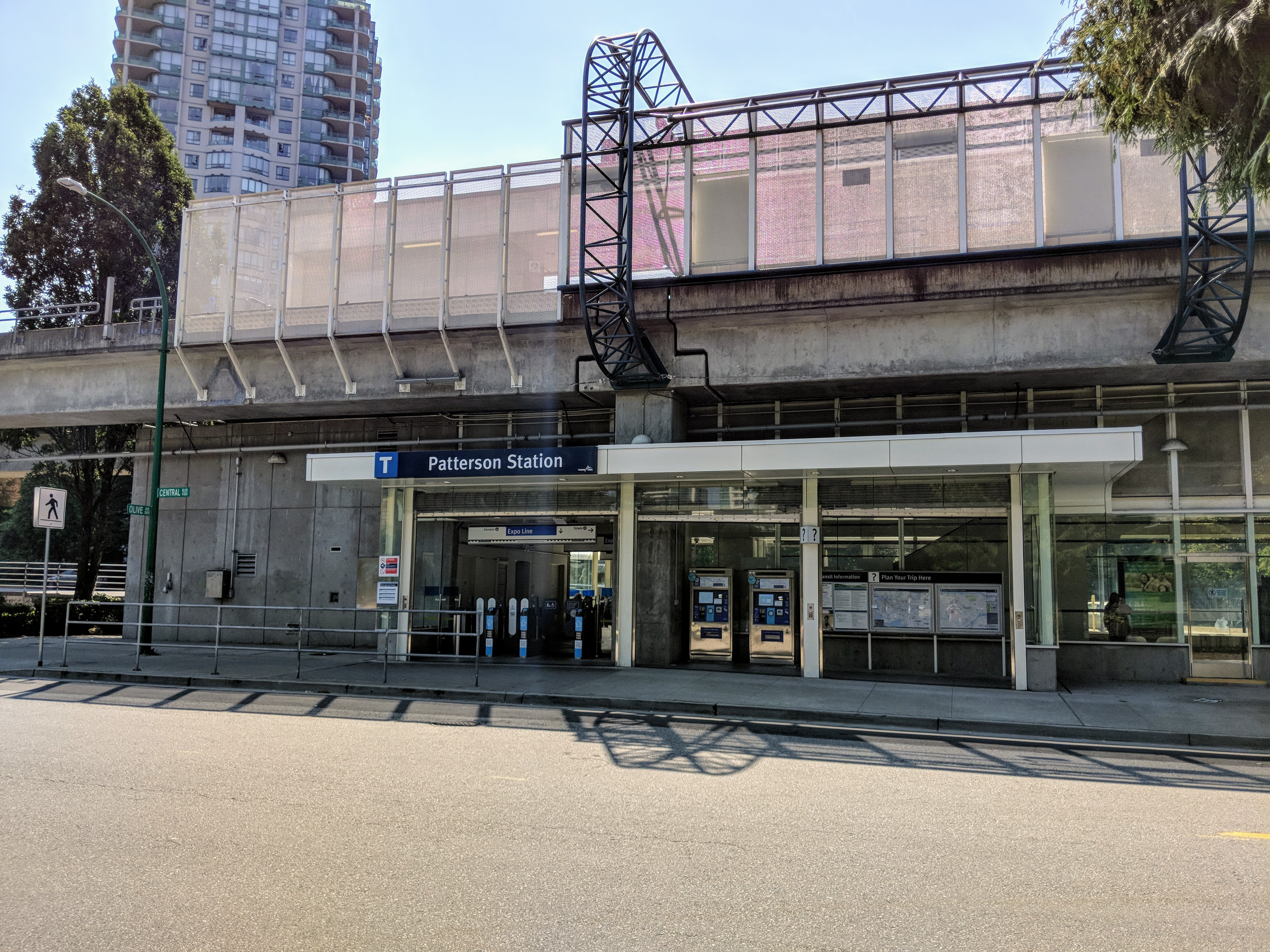 Exterior shot of Patterson station. Photo is taken from the north side on Central Boulevard.